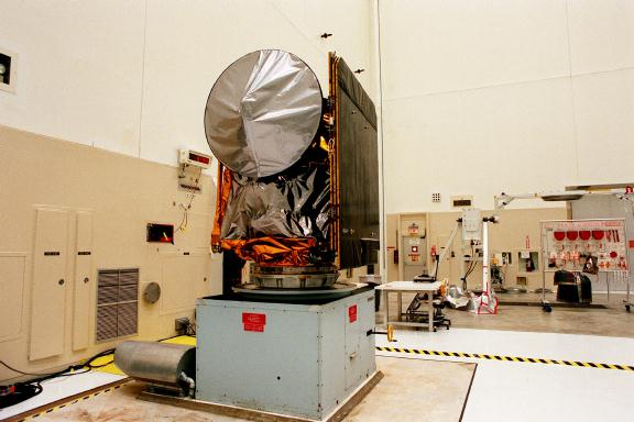 In the Spacecraft Assembly and Encapsulation Facility -2 (SAEF-2), workers prepare the Mars Climate Orbiter for a spin test. Photos taken on November 13, 1998. Targeted for launch aboard a Delta II rocket on Dec. 10, 1998, the orbiter is heading for Mars where it will primarily support its companion Mars Polar Lander spacecraft, which is planned for launch on Jan. 3, 1999. At the extreme right can be seen the lander in another work area. The orbiter's instruments will monitor the Martian atmosphere and image the planet's surface on a daily basis for 687 Earth days. It will observe the appearance and movement of atmospheric dust and water vapor, as well as characterize seasonal changes on the surface. The detailed images of the surface features will provide important clues to the planet's early climate history and give scientists more information about possible liquid water reserves beneath the surface. In this photo, Mars Climate Orbiter is in place for its spin test.